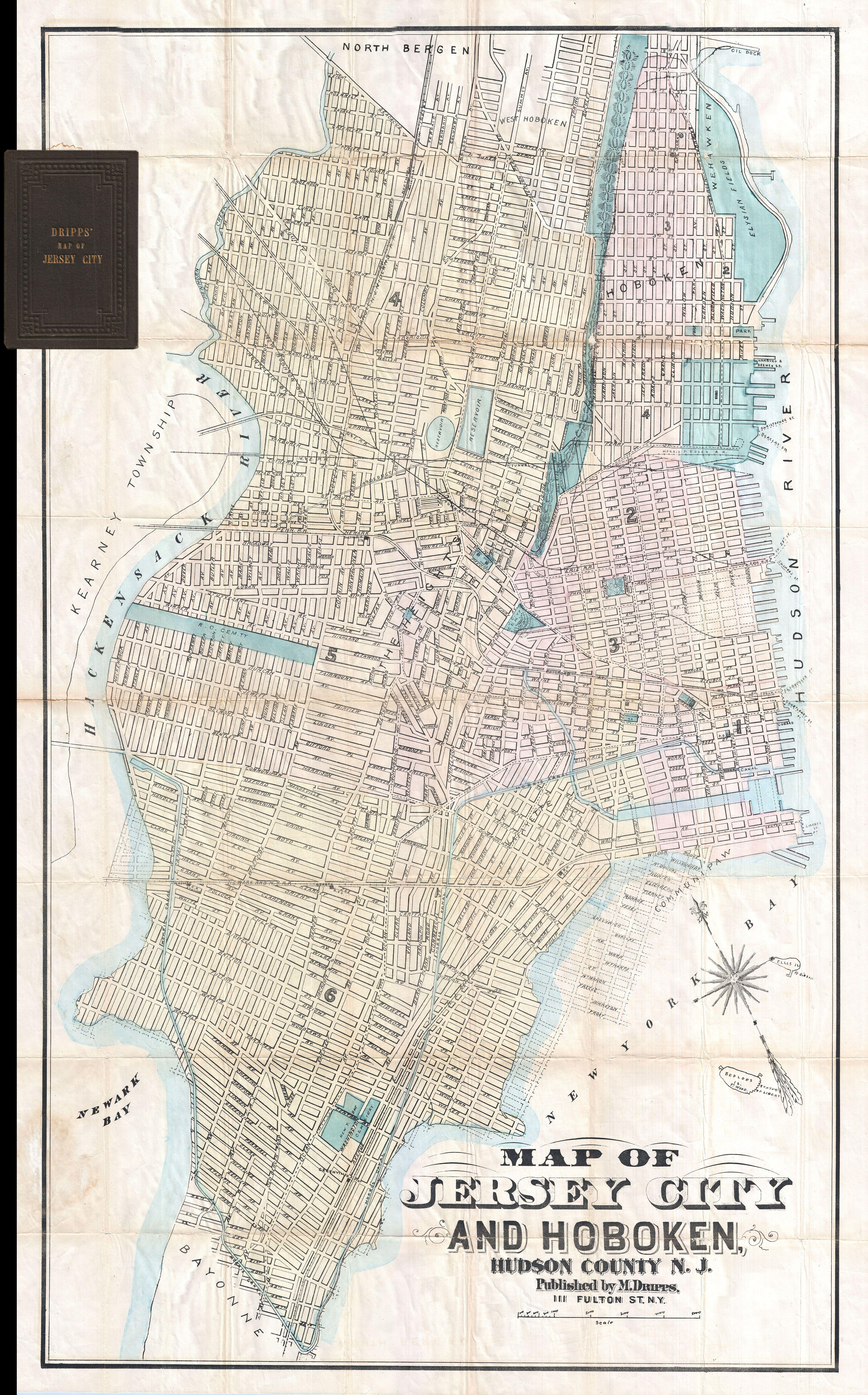 A map of exceeding rarity. This is the only known example of Matthew Dripps' pocket map of Jersey City and Hoboken. While this map is undated, the combination of the map's attribution, printing style, and the inclusion of certain geographic features such as the Statue of Liberty, firmly date it to 1885 - 1887 period. Covers Jersey City and Hoboken from North Bergen and the Elysian Fields of Weehawken south to Bayonne. Bounded on the west by the Hackensack River and on the east by New York Bay and the Hudson River. Identifies various streets, canals, parks, reservoirs, train lines, tunnels, ferry lines, and important public buildings. We have been unable to locate a single example of this map in any major collection or cartobibliography. Published by Matthew Dripps from his 111 Fulton Street office in New York City.